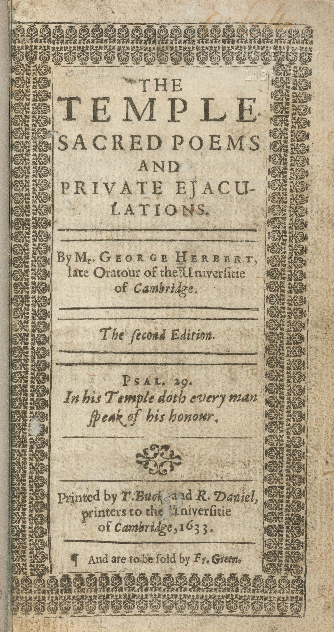 Title page: The Temple: sacred poems and private ejaculations, 1633, second edition, by George Herbert (1593-1633). STC 13185, Houghton Library, Harvard University